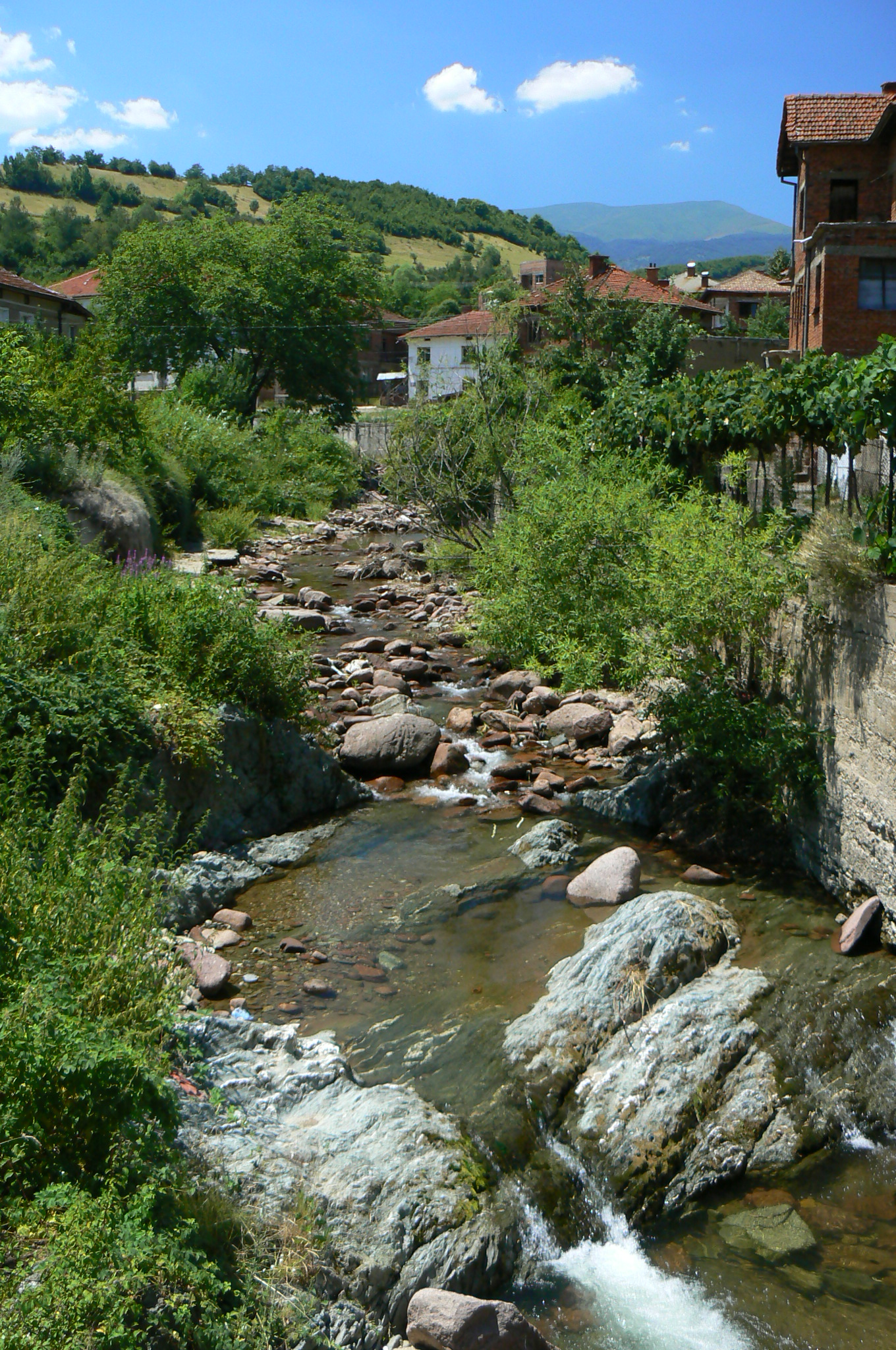 River Chiprovska Ogosta passing through the centre of town Chiprovtsi, Bulgaria